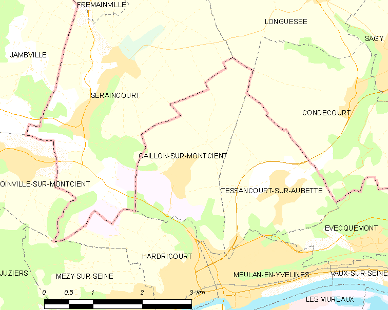 Map of French municipality Gaillon-sur-Montcient